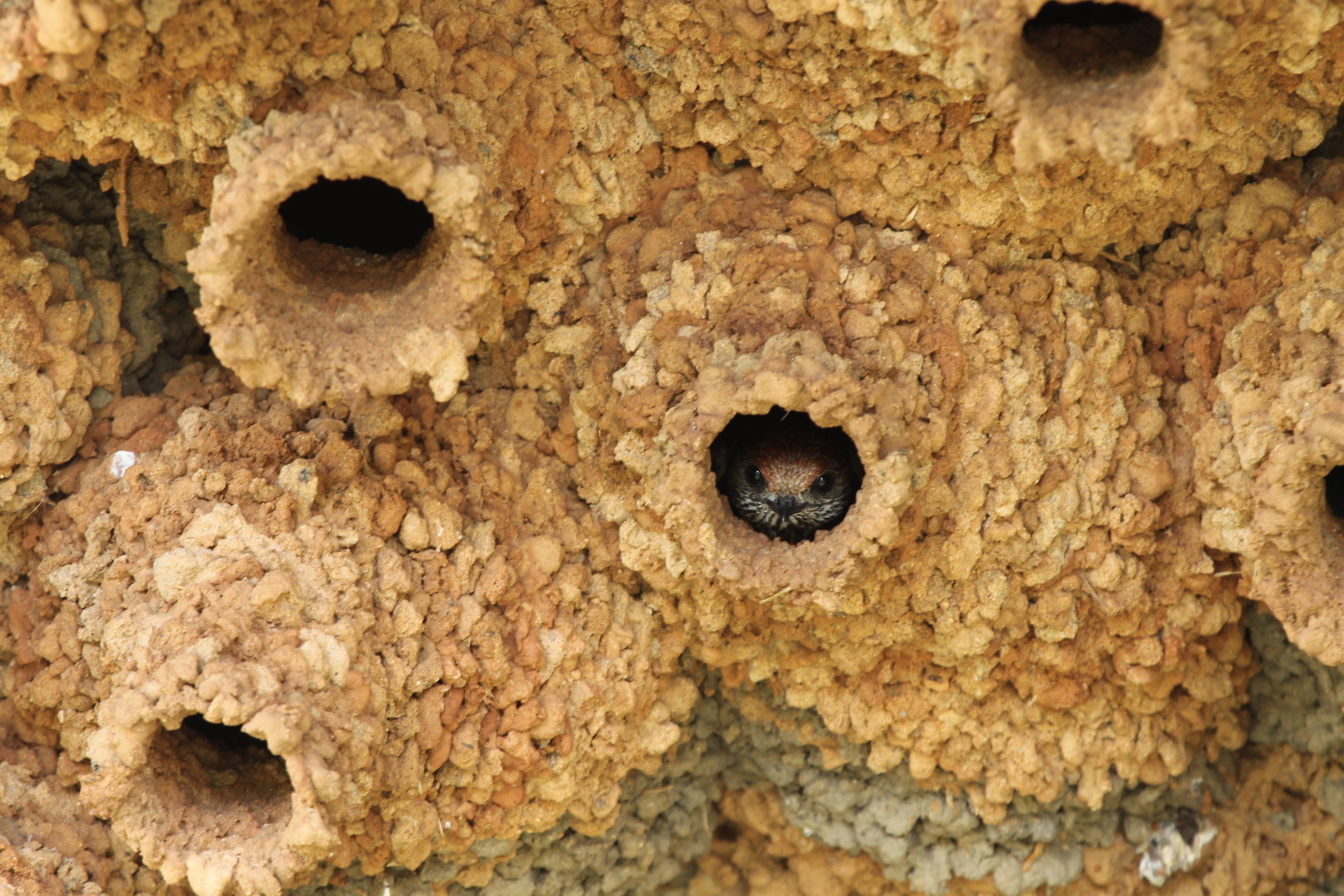 Cecropis daurica, building their nests, Karnataka, India